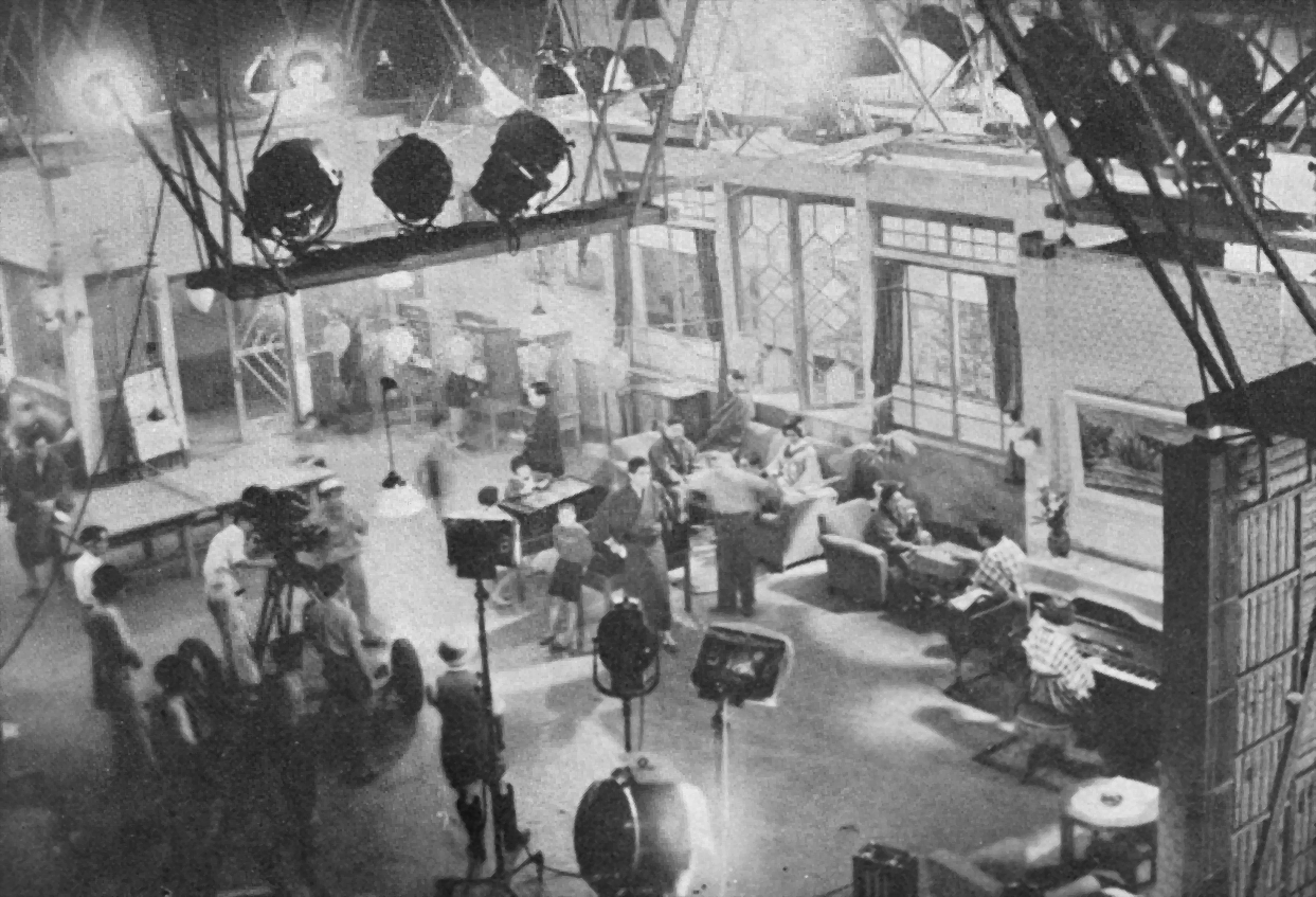 Scene being shot in the Toho studios in spring 1938 for Makiba monogatari (牧場物語; „Tale of a Pasture”) The film was a propaganda piece financed by Nippon Bunka Renmei (日本文化聯盟) aimed at aiding the war effort in China.